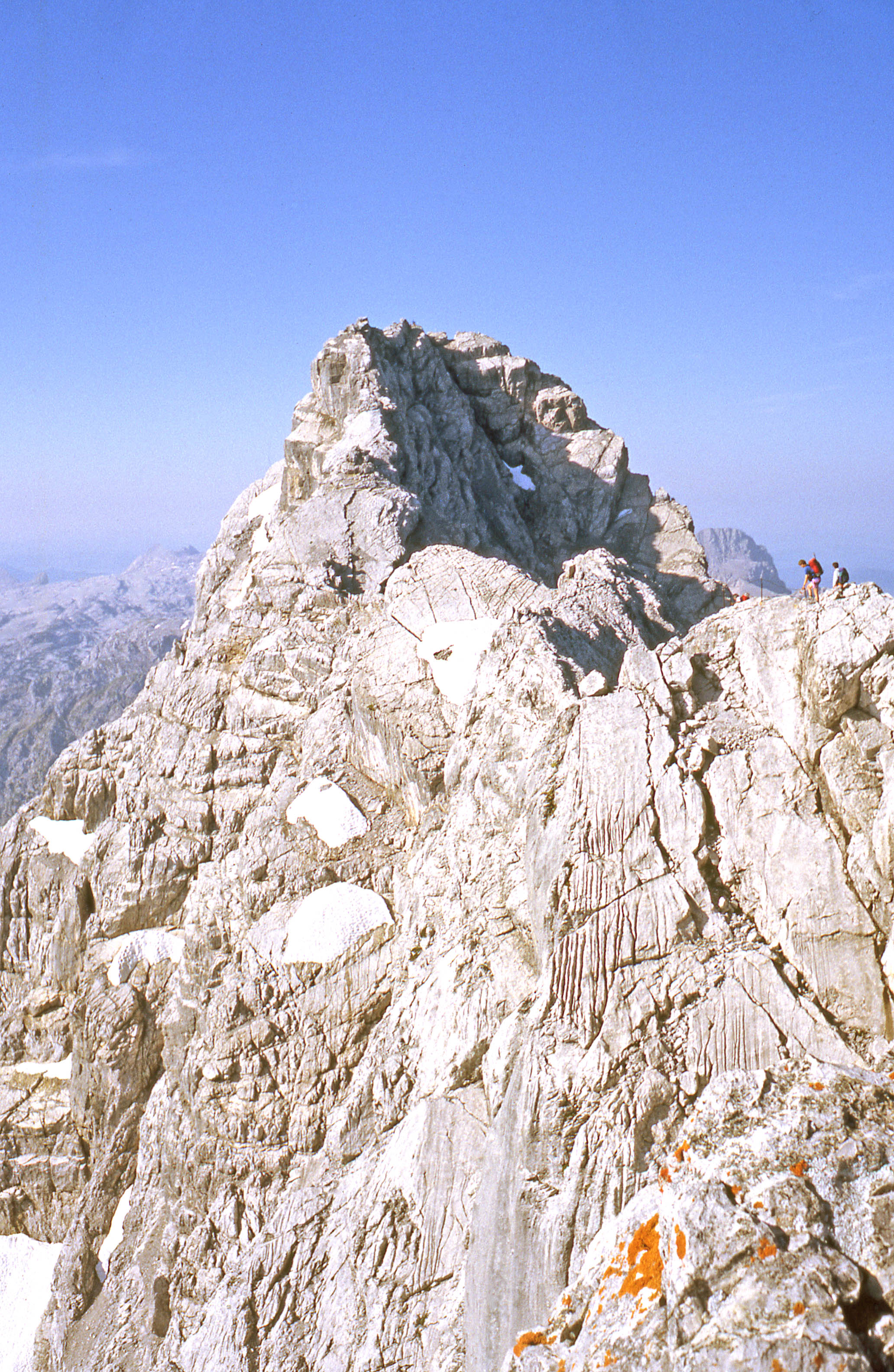 Watzmann Mittelspitze coming from Hocheck